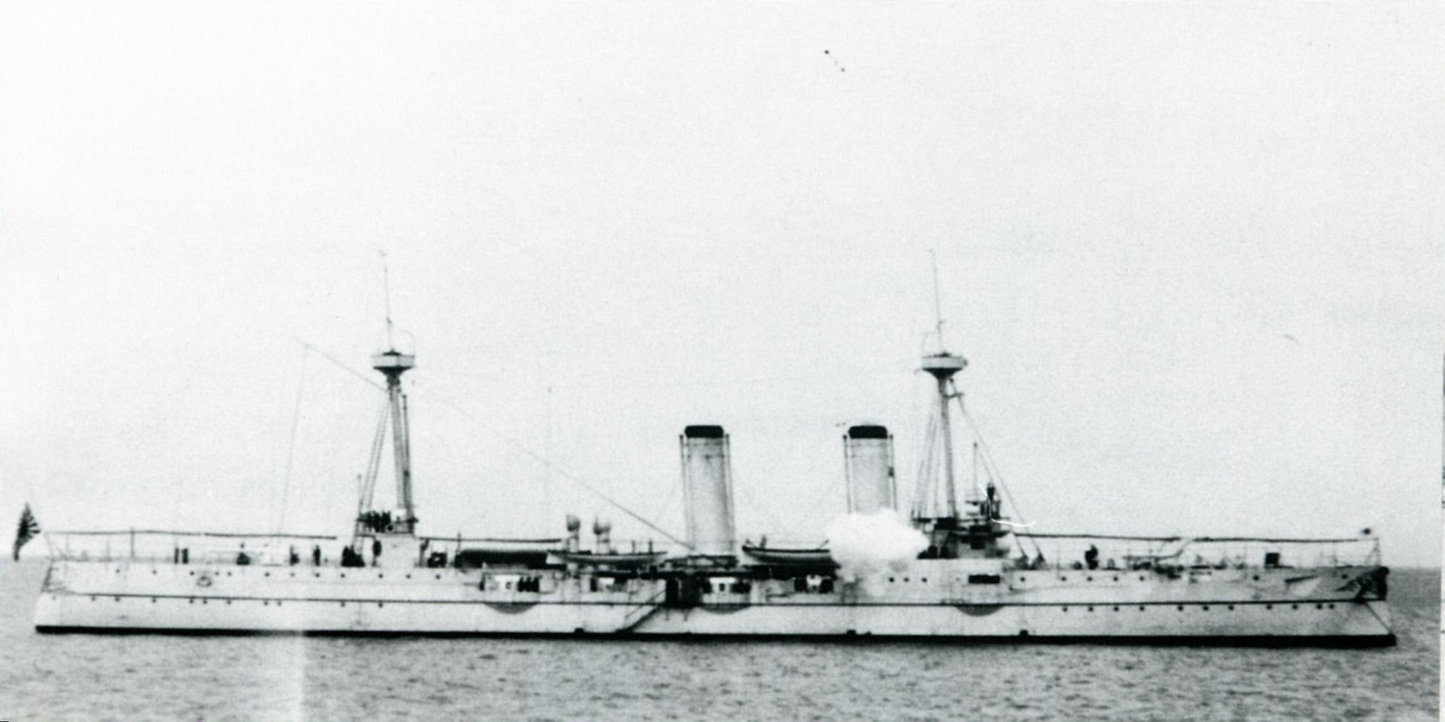 Japanese cruiser Suma in 1897, Kobe